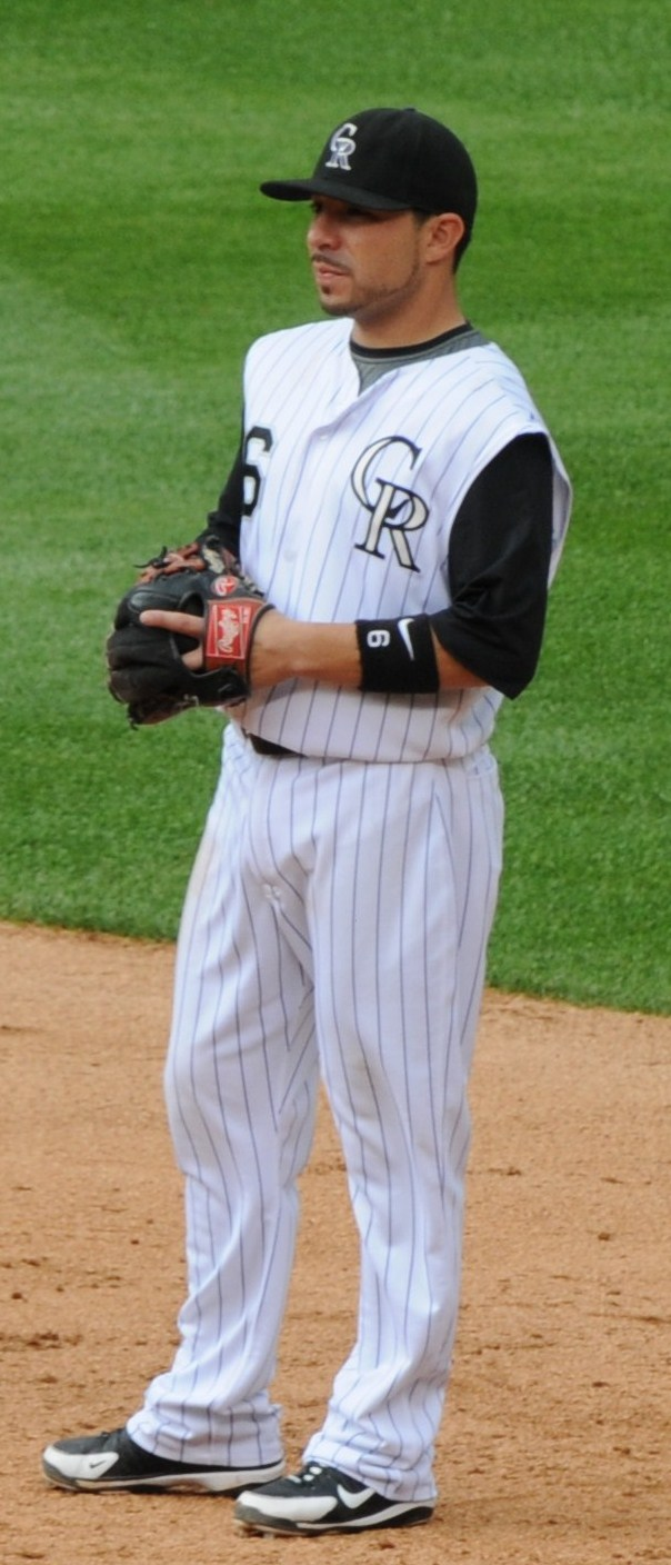 Description own work DateSourceI created this work entirely by myself.AuthorOnetwo1 (talk) 01:40, 11 August 2008 . . Onetwo1 . . 725×1,764 (261 KB) own work